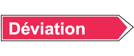 Diagram of road signs of Luxembourg